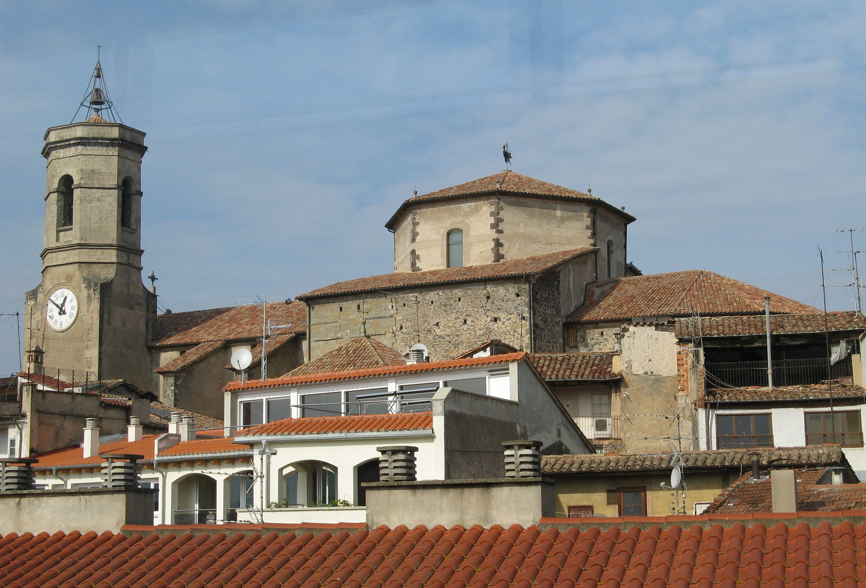 Olot, main church Sant Esteve